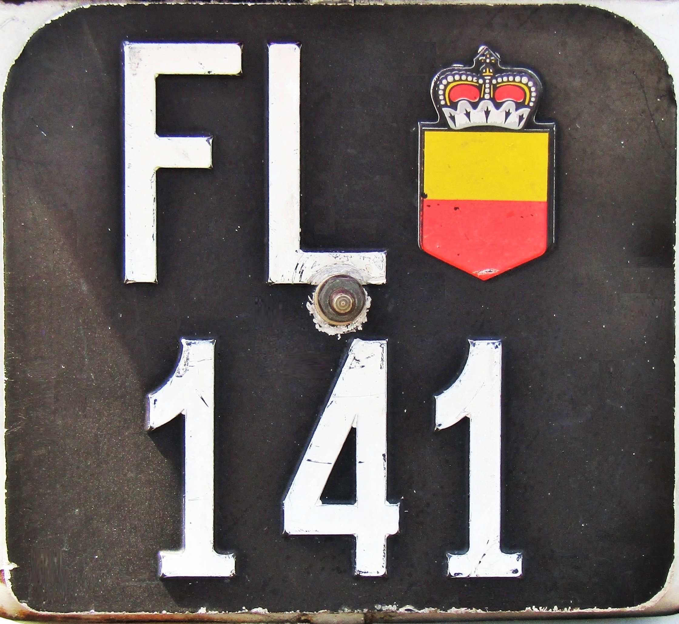 FL old style motorcycle license plate